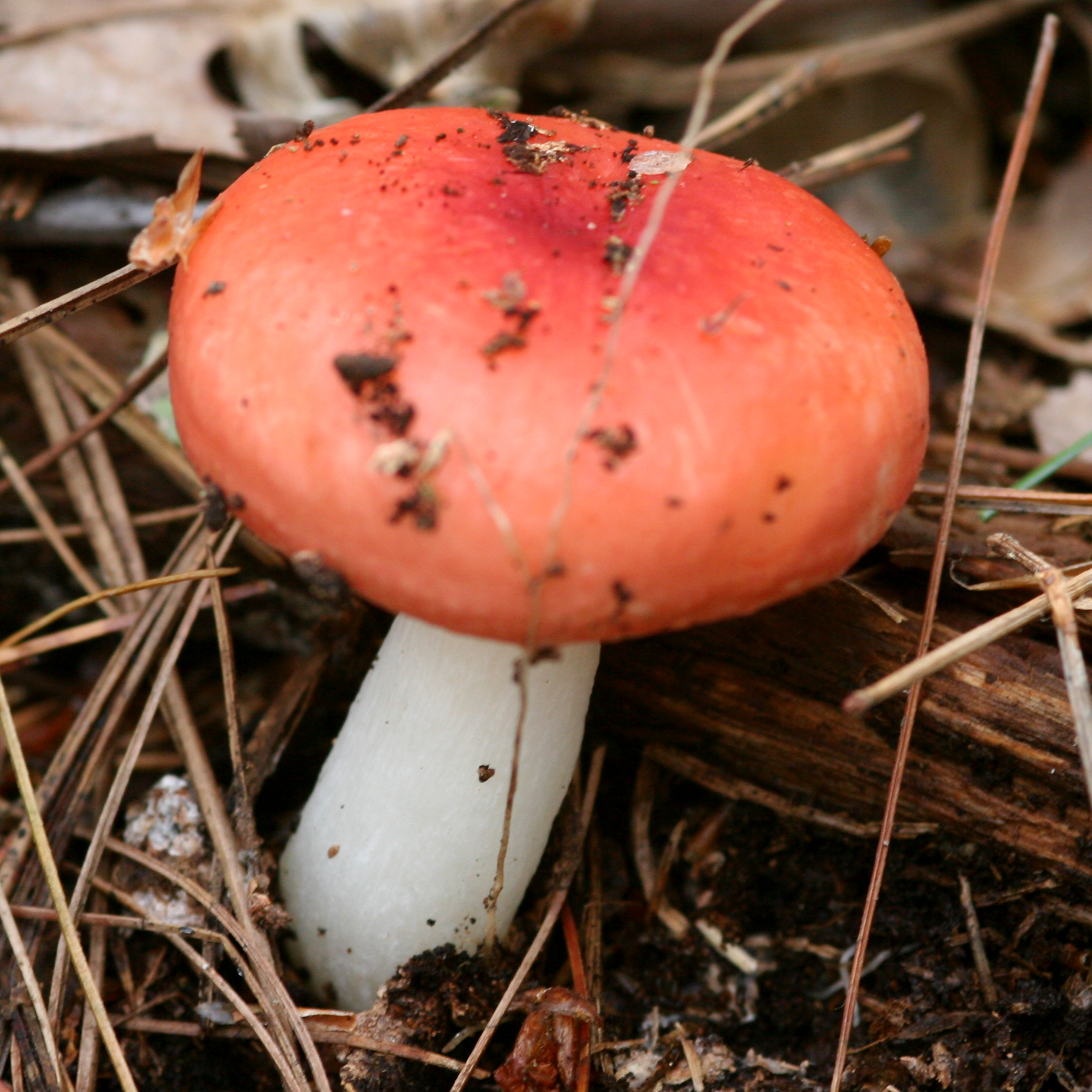 Russula emetica. Very acrid! I, User Debivort took the photograph in the Middlesex Fells, Massachusetts, October 17, 2005